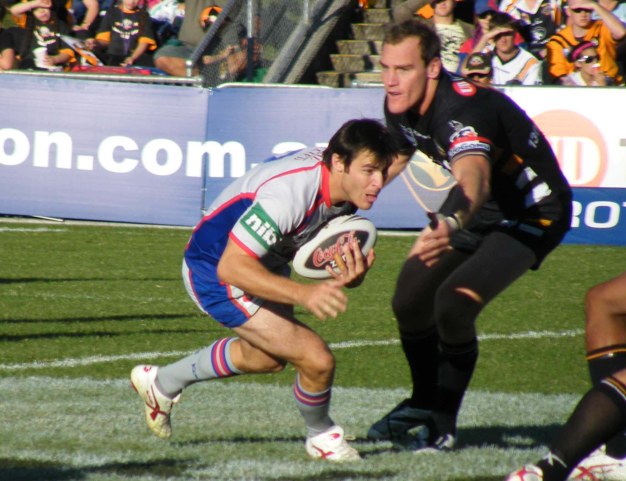 James McManus of the Newcastle Knights